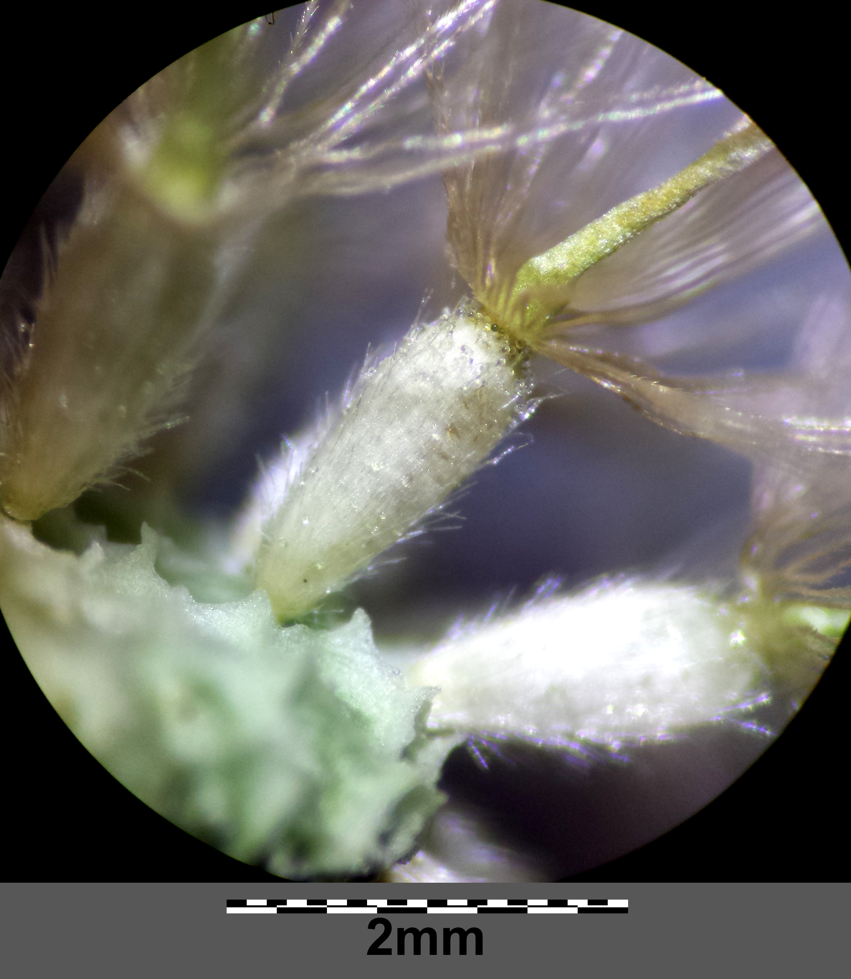 Achenes, with glands at the top Taxonym: Dittrichia graveolens ss Fischer et al. EfÖLS 2008 ISBN 978-3-85474-187-9 Location: Korneuburg, Lower Austria - ca. 170 m a.s.l. Habitat: gap in street surface